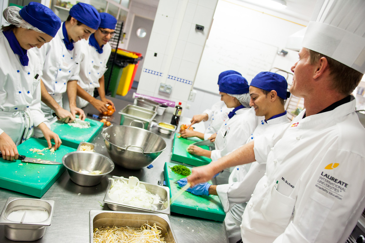 During semesters 1 and 3, undergraduate students are given extensive hands-on training in food & beverage service, rooms division, and kitchen operations. Pictured here is the experiential learning kitchen in one of our three campus restaurants.